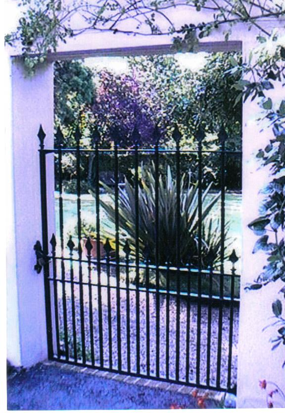 A Gate in the new side buttress supporting the corner of the cob-built portion of Woodway House